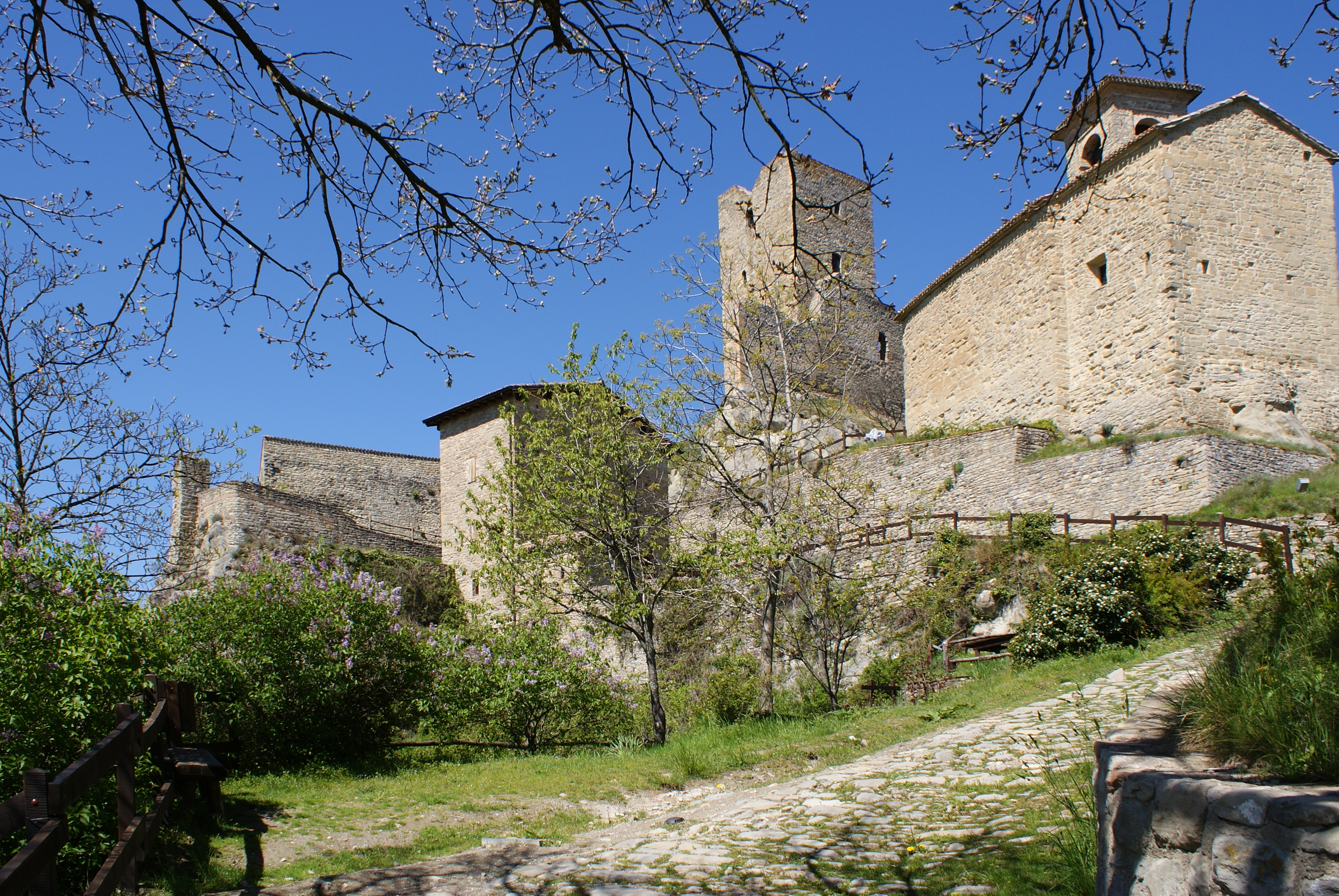 Castle of Carpineti, Carpineti, Italy